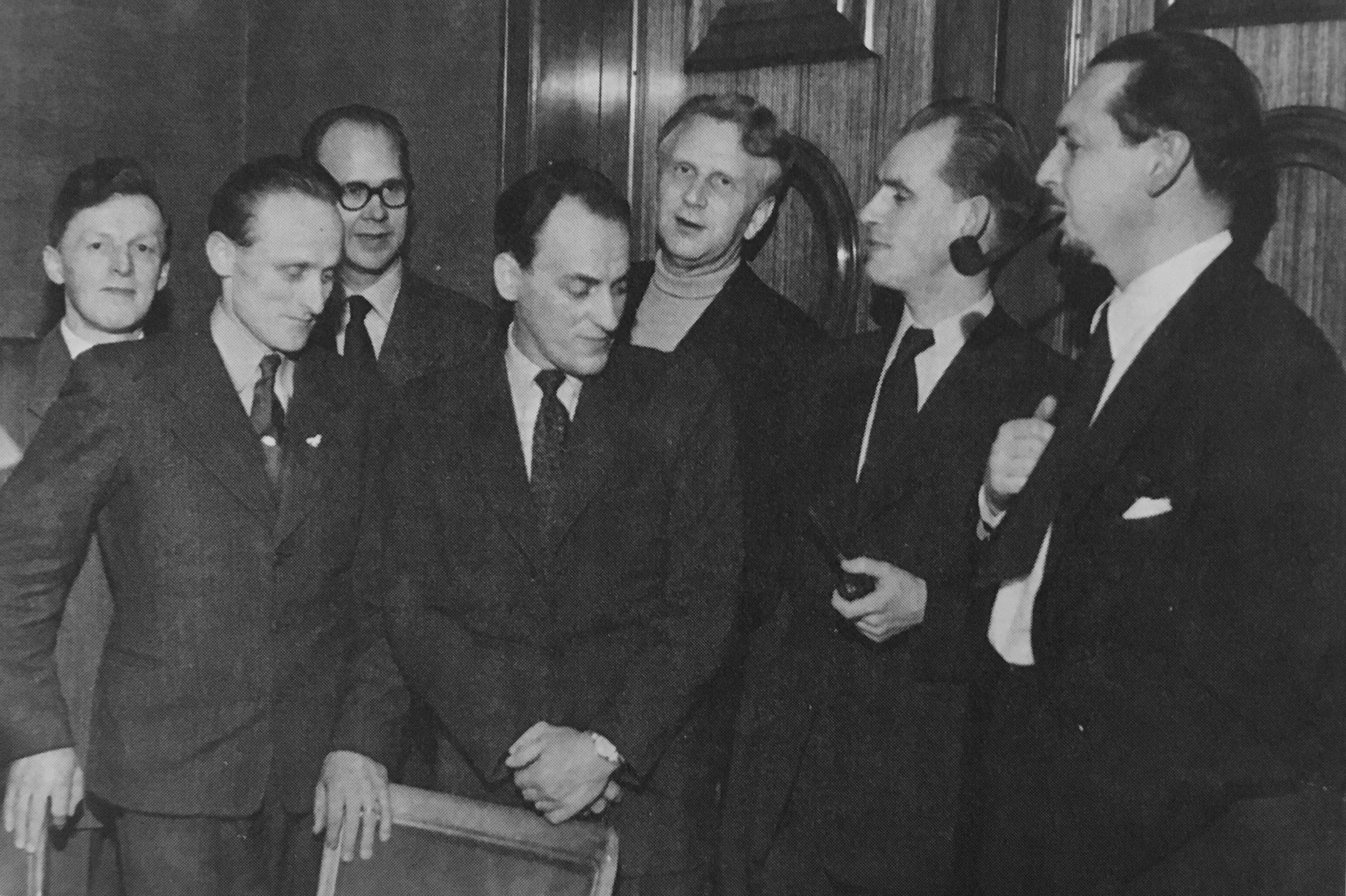 The laureates and jurors of the novel competition arranged by the publishing house "Arbetarkultur": (from left) Harald Hansson, Fred Eriksson, Karl Vennberg, Ernst Lindholm, Arnold Ljungdal, Bengt Gunnäs and Per-Olov Zennström.